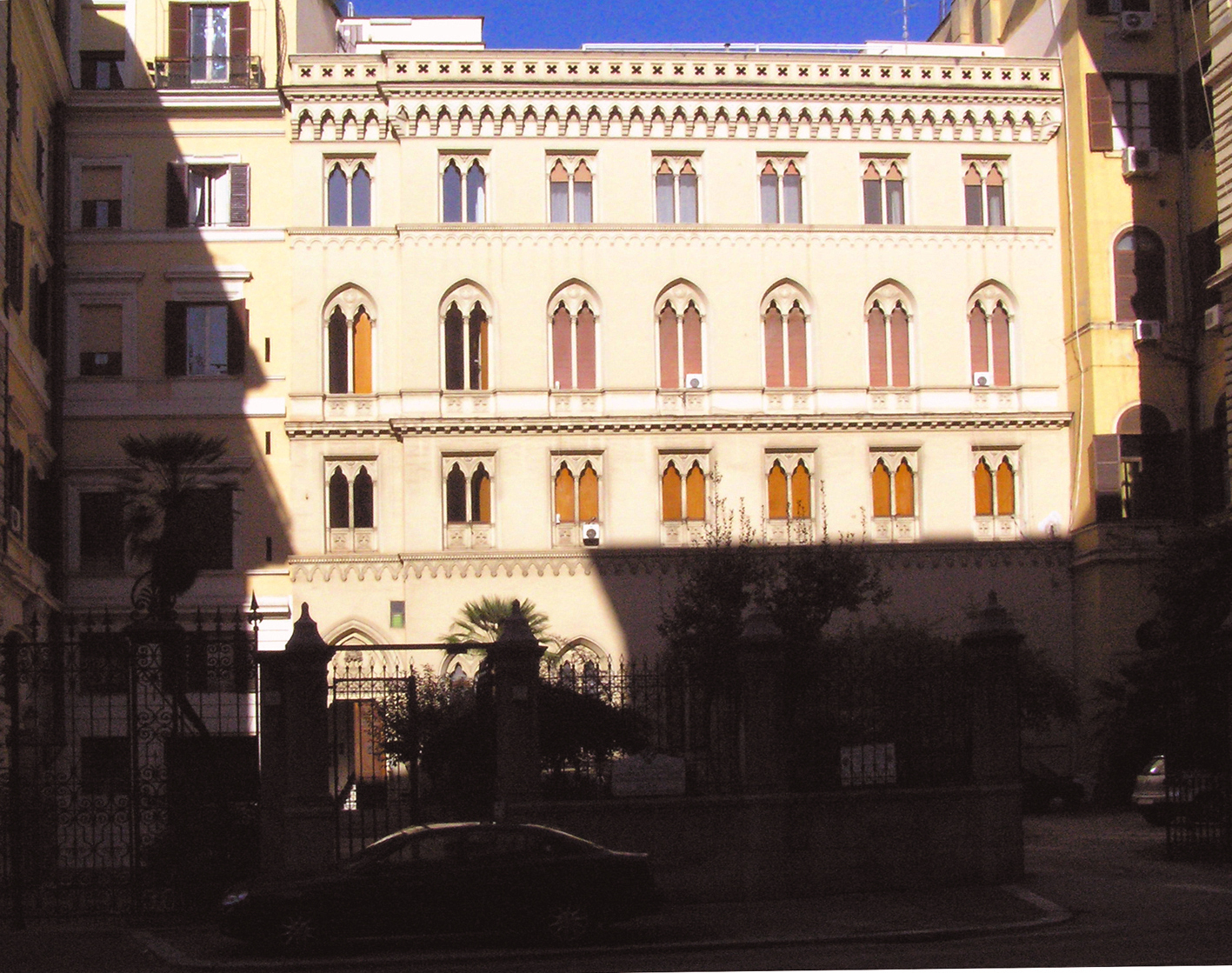 Photo taken by me, 30.10.05--Laufenthalbub 15:38, 7 November 2005 (UTC)